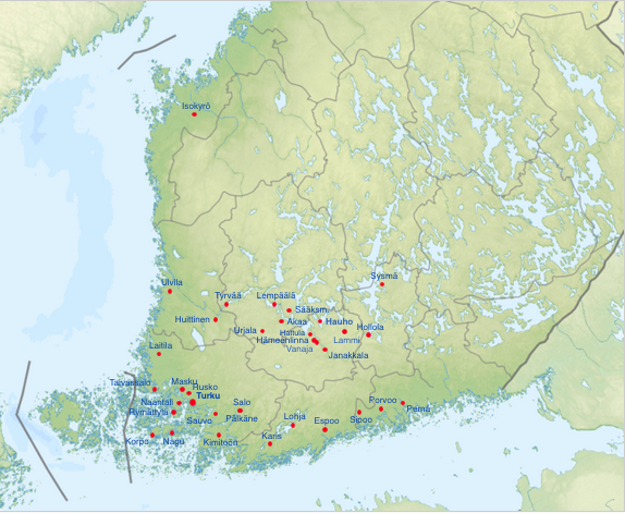 Distribution of Brick Gothic buildings in Finland